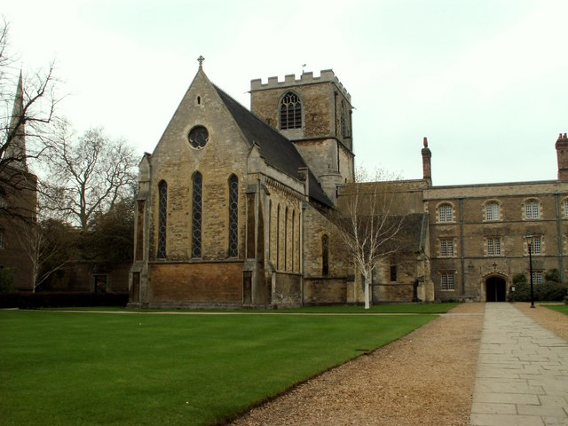 Jesus College Chapel, Cambridge. Jesus College Chapel was actually the church of the Benedictine Nunnery of St. Radegond, which was incorporated into the building of Jesus College when the nunnery was dissolved. Most of the church is 12th and 13th century and much smaller now than it was when it belonged to the nunnery. Many other parts of the nunnery can be found amongst the college buildings.